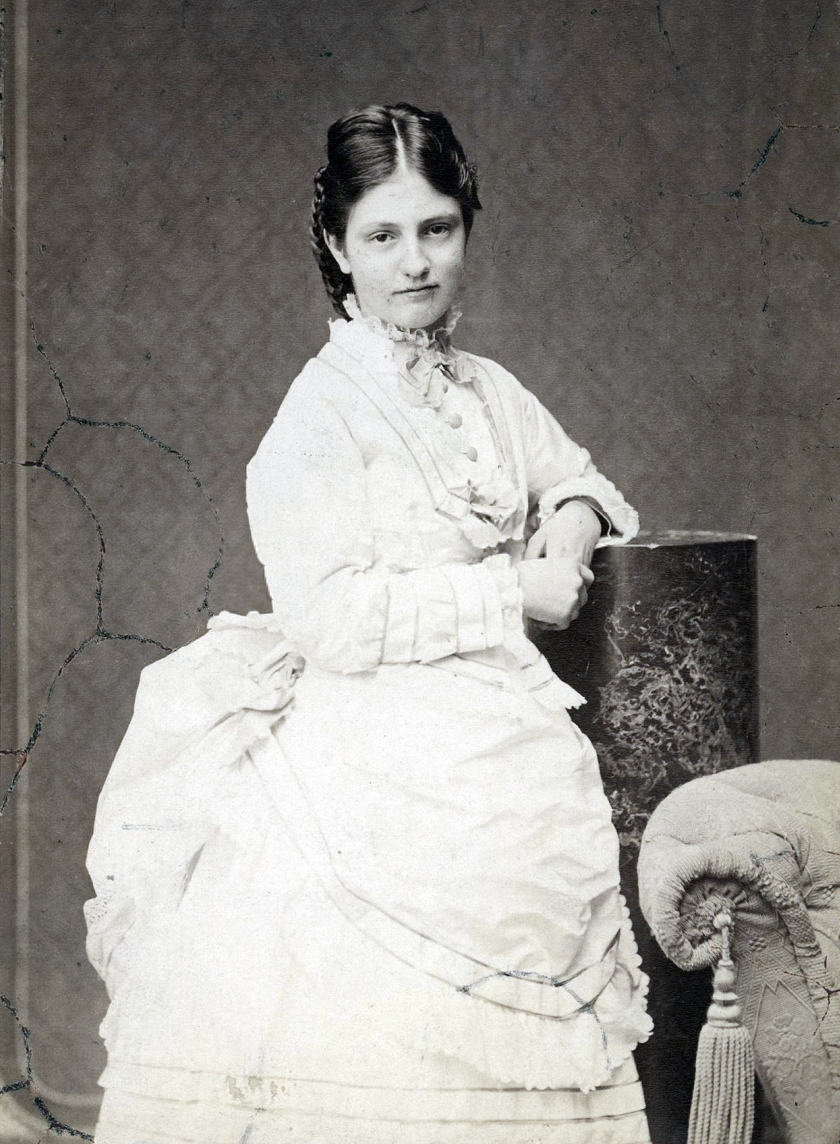 Marie Antoinette, Archduchess of Austria-Tuscany (1858–1883), daughter of Ferdinand IV, Grand Duke of Tuscany and Princess Anna Maria of Saxony